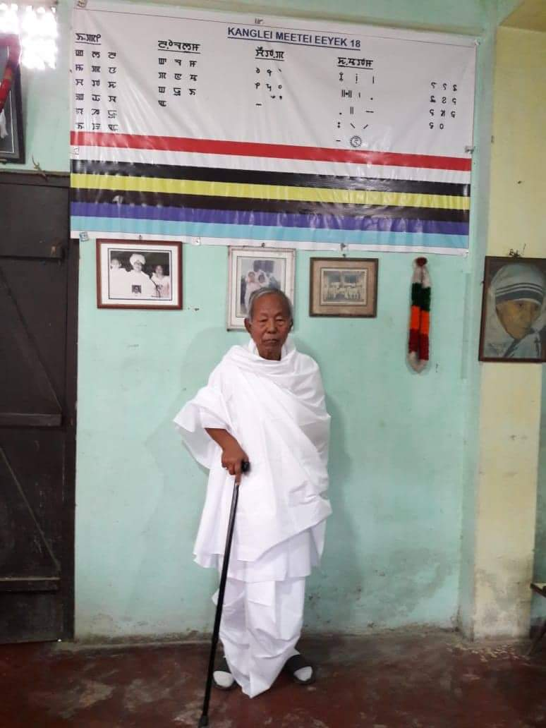 Wangkhemcha Chingtamlen ( age 85, December 2018)